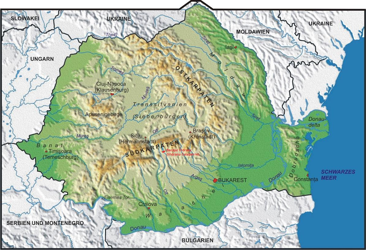 Geographical location of Vidraru Dam in the southern Carpathians, Romania